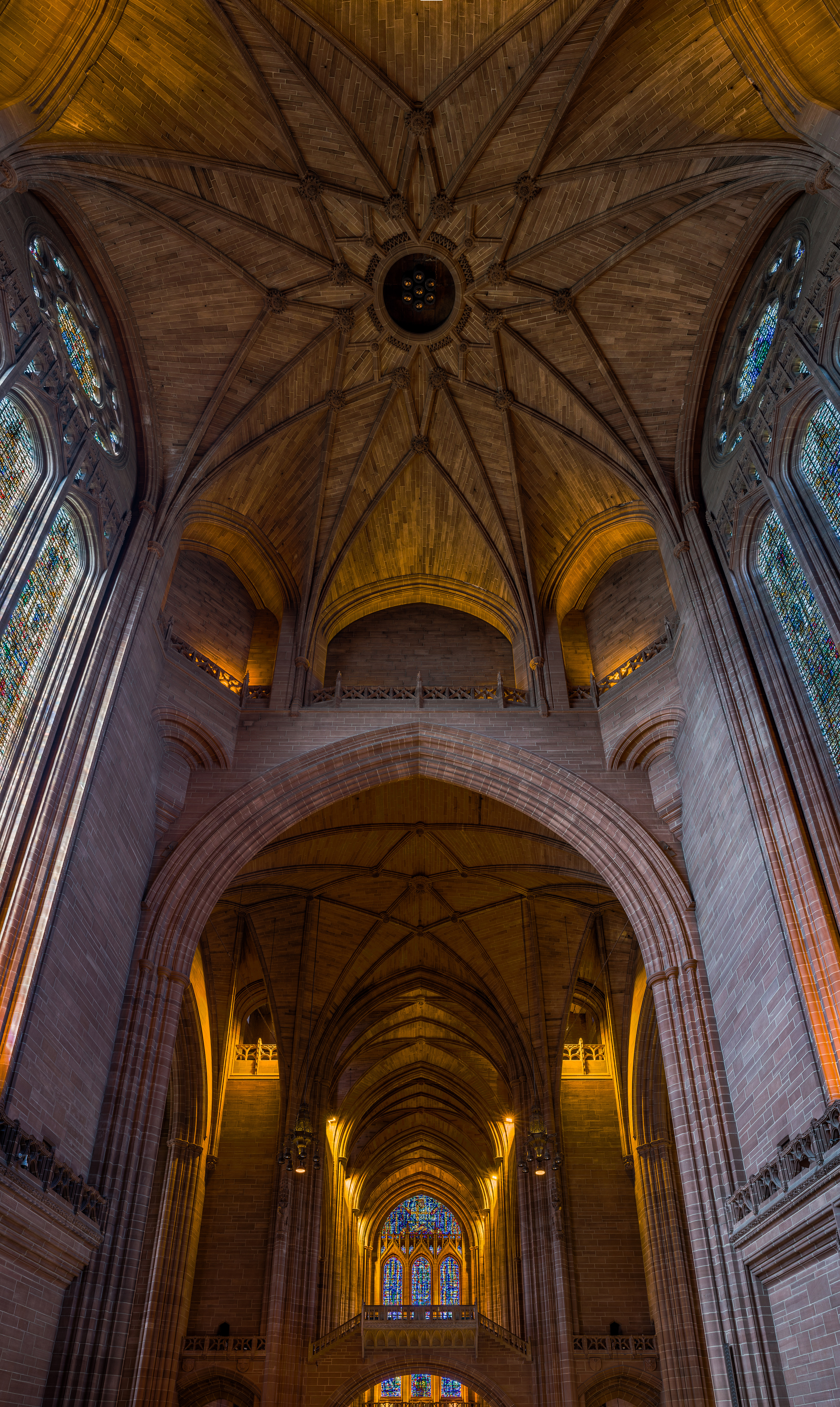 Looking westwards toward the ceiling of Liverpool Anglican Cathedral in Liverpool, England.